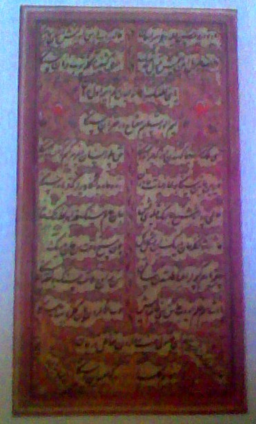 Page from a divan of a famous Azerbaijani poet Fuzuli. Manuscript of 1628. Institue of Manuscripts of Azerbaijan. Baku